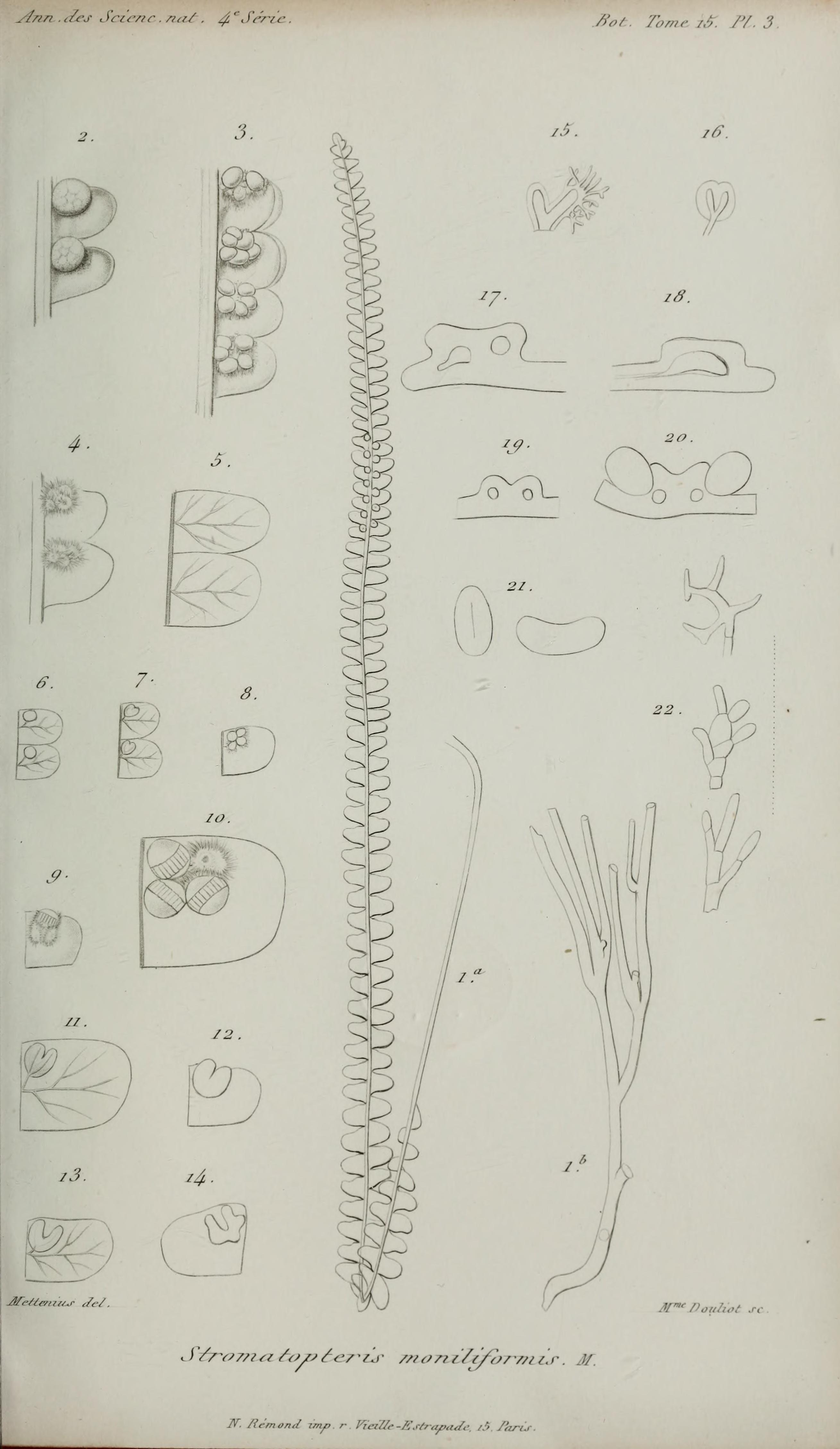 Stromatopteris moniliformis line drawing